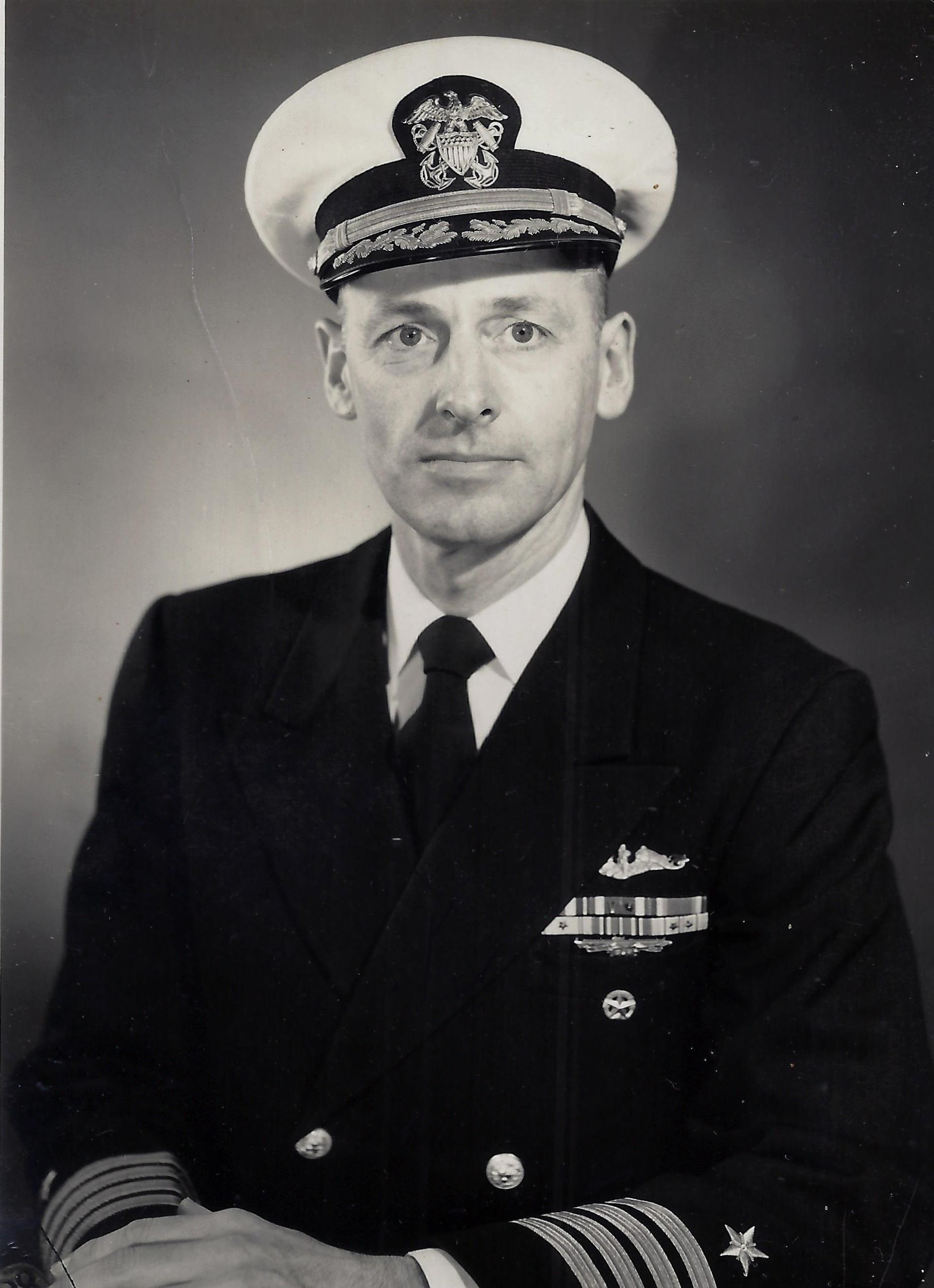 Robert Devore McWethy (born December 7, 1927) is a retired United States Navy Captain and submarine commander who fought in the Pacific during World War II and later pioneered submarine navigation under the Polar ice cap.